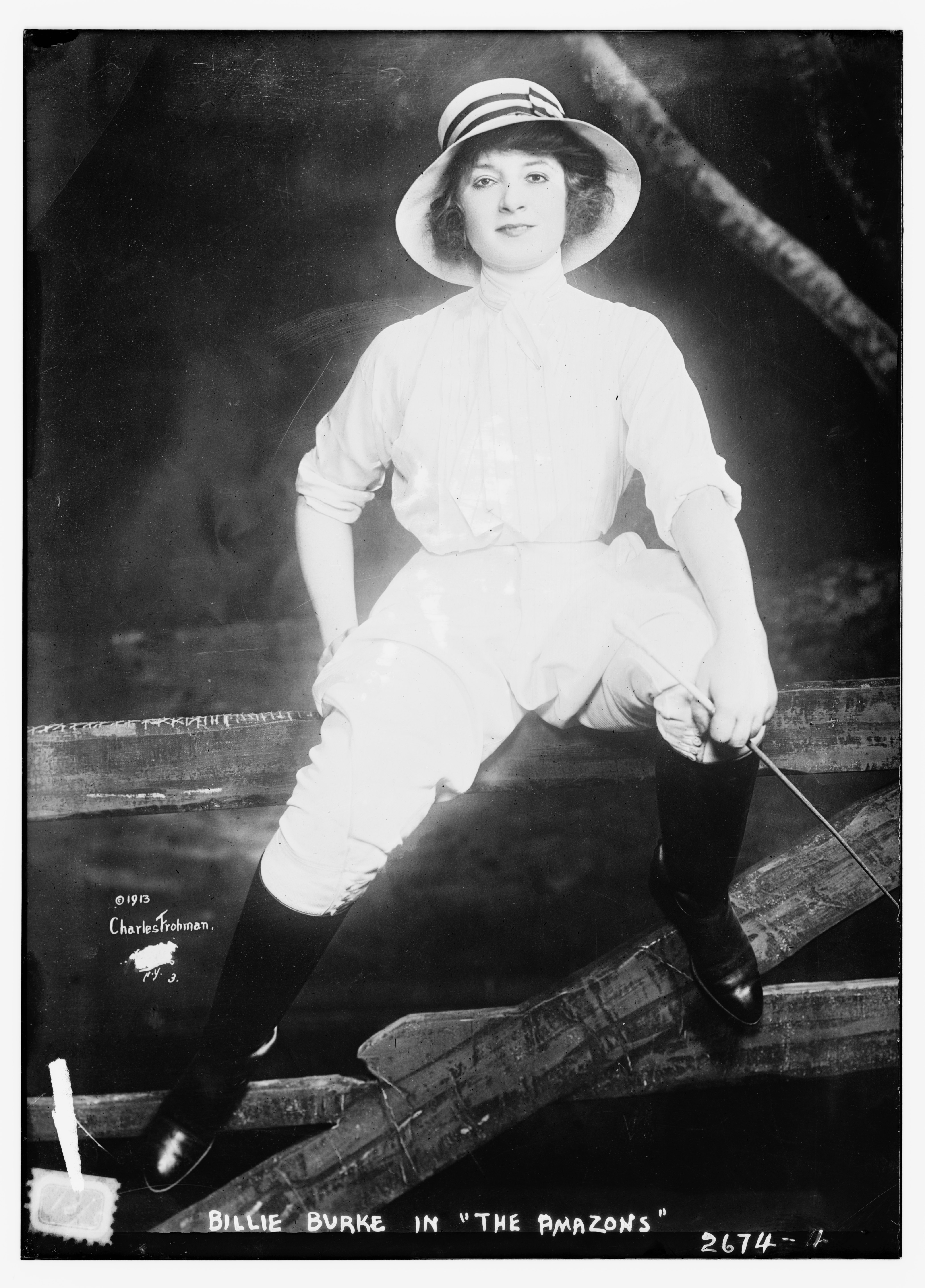 Title: Billie Burke in "The Amazons" / Charles Frohman Abstract/medium: 1 negative : glass ; 5 x 7 in. or smaller.